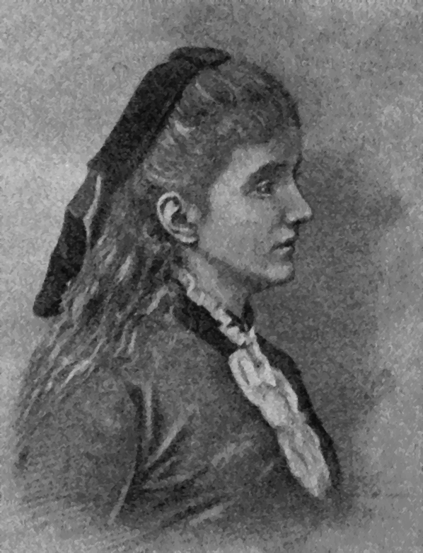 Marie Felice Blanc, wife of Roland Bonaparte, daughter of Francois and Marie Blanc (nee Hensel)